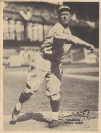 A baseball card of Claude Willoughby from the 1929 Kashin Publications (R316) set.